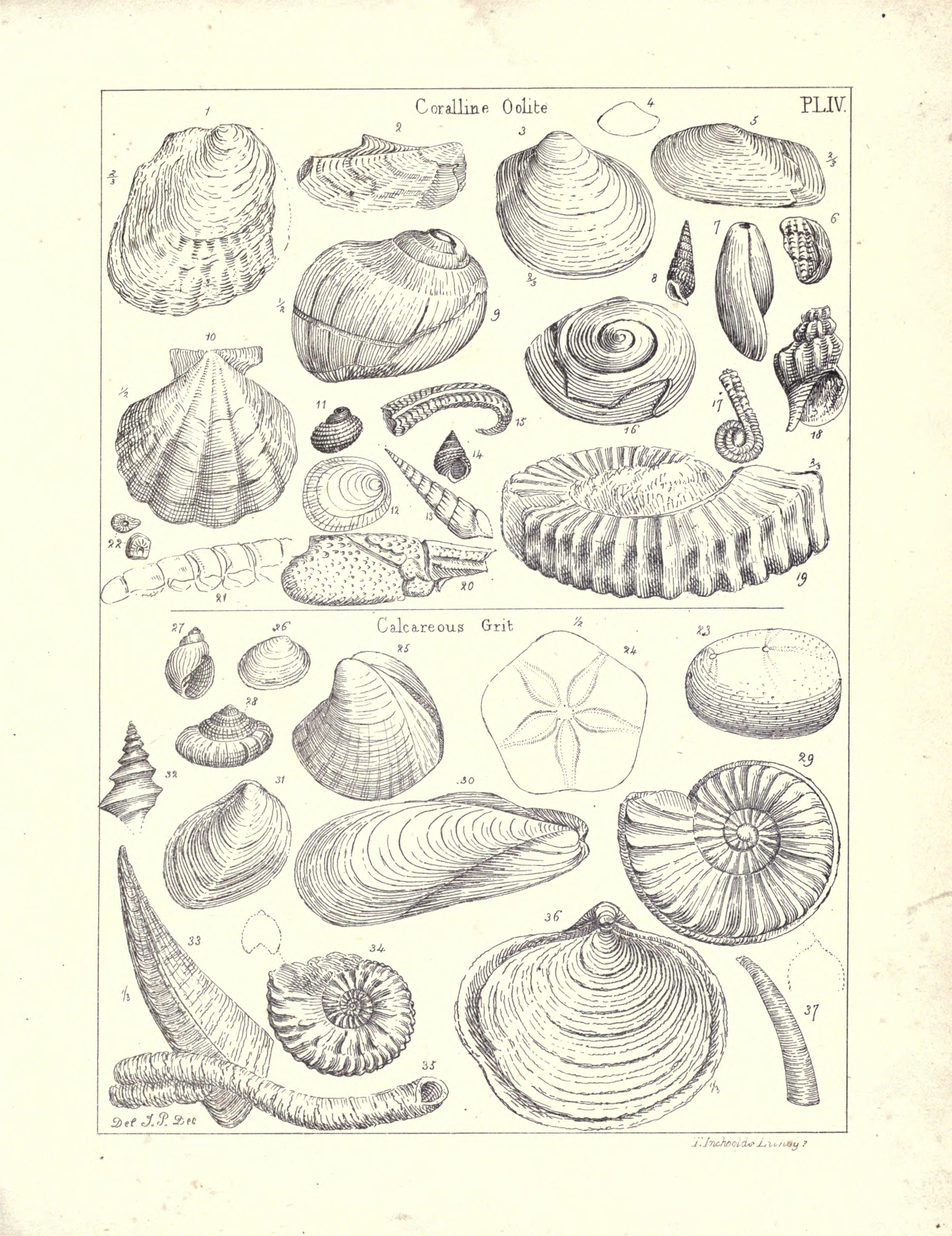 Illustrations of the geology of Yorkshire; or, A description of the strata and organic remains of the Yorkshire coast: accompanied by a geological map, sections, and plates of the fossil plants and animals. By John Phillips.